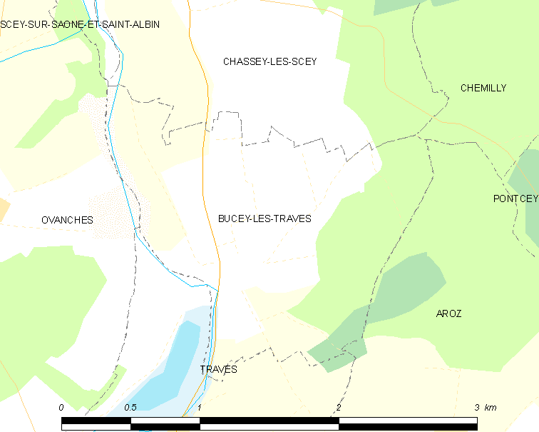 Map of French municipality